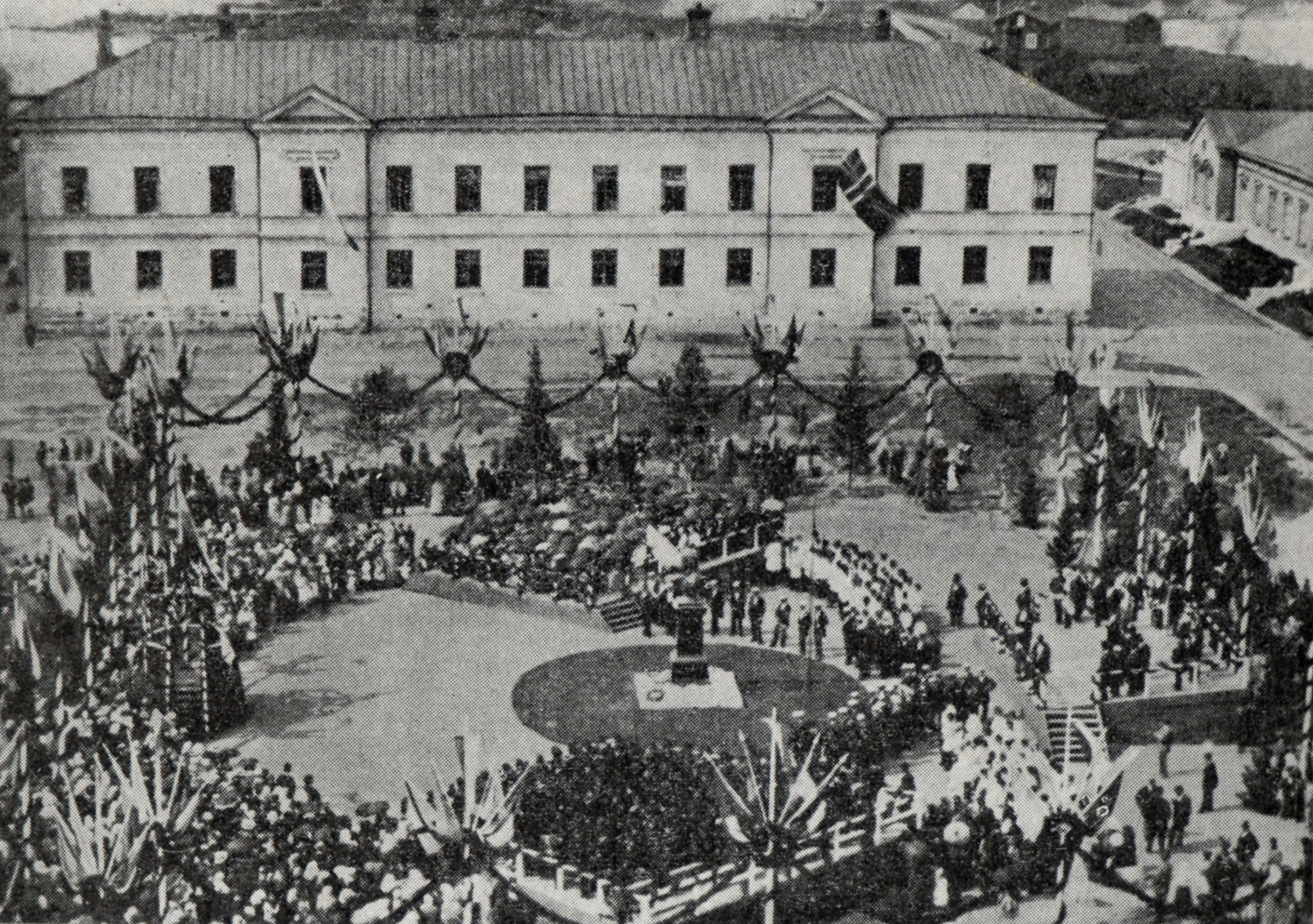 Unveiling of the Frans Mikael Franzén statue in Oulu.